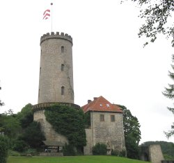 Sparrenburg Castle, Bielefeld, Germany